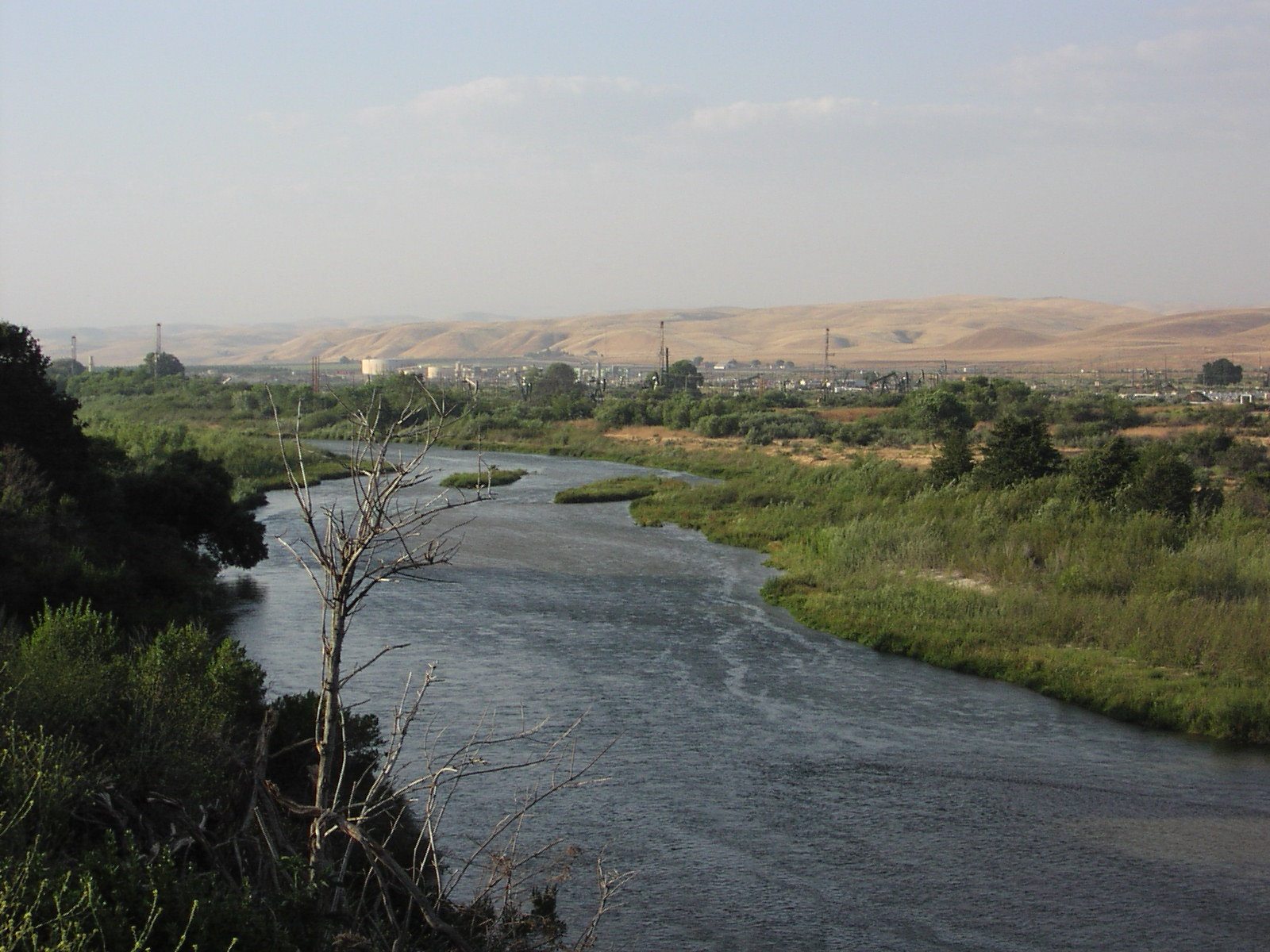 San Ardo Oil Field, with the Salinas River in the foreground. Taken by User:Antandrus, May 2008. GFDL.